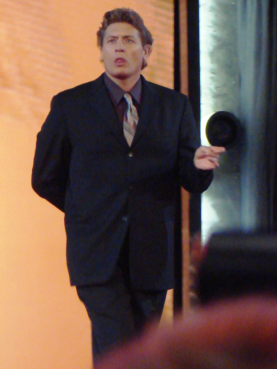 William Regal at No Mercy 2007. Taken by me. Cropped, rotated, and brightened.